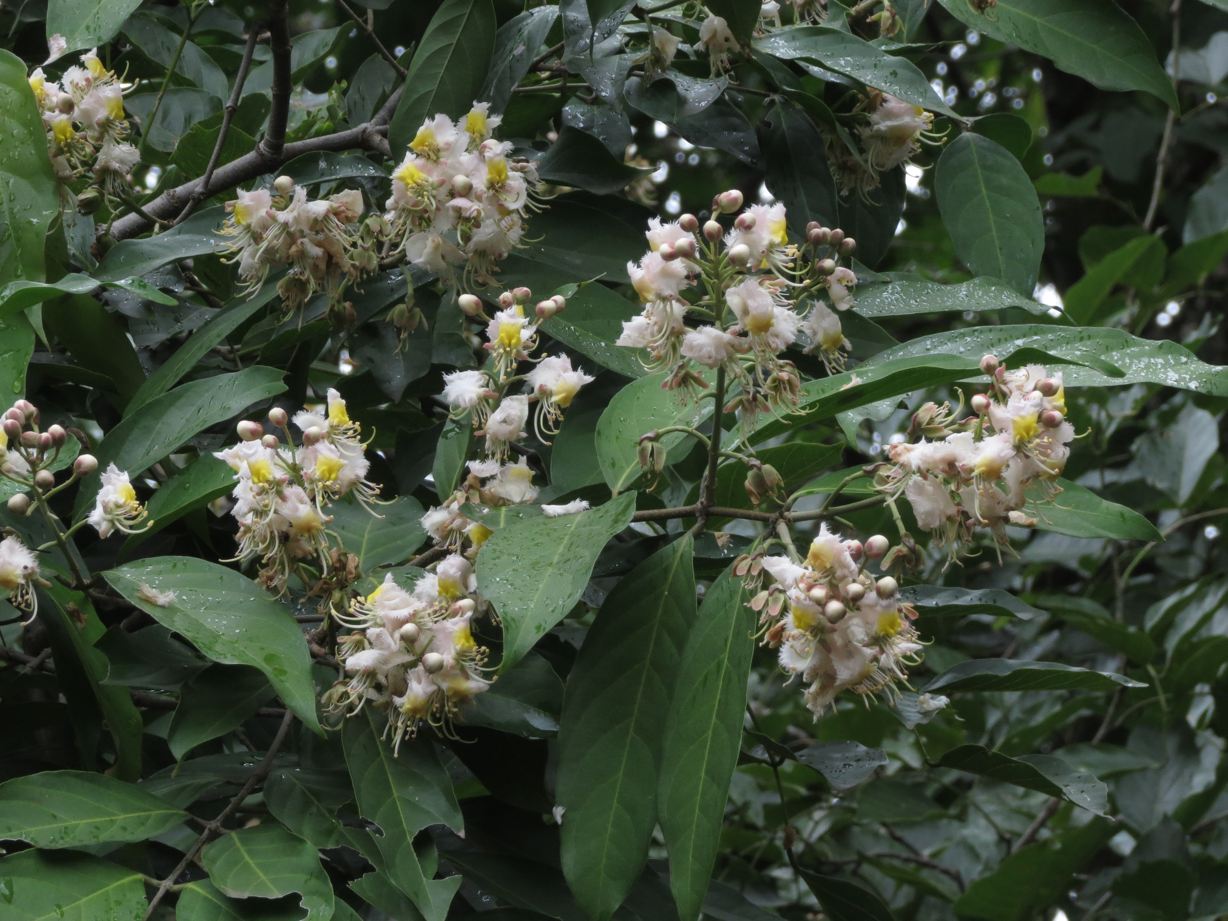 Hiptage benghalensis seen in Gulkamale bangalore rural off Kanakapura road